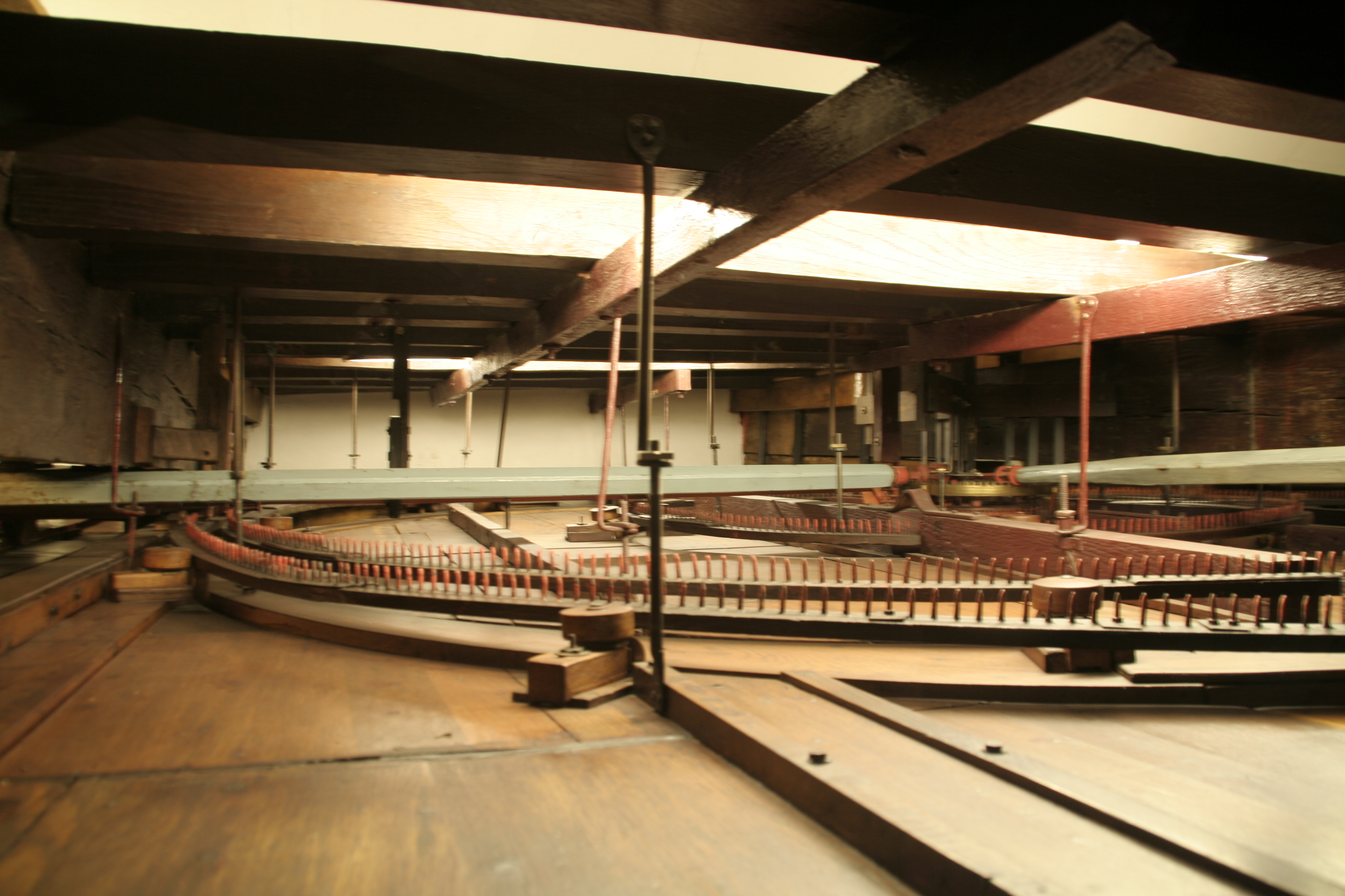 internal mechanism of the planatarium